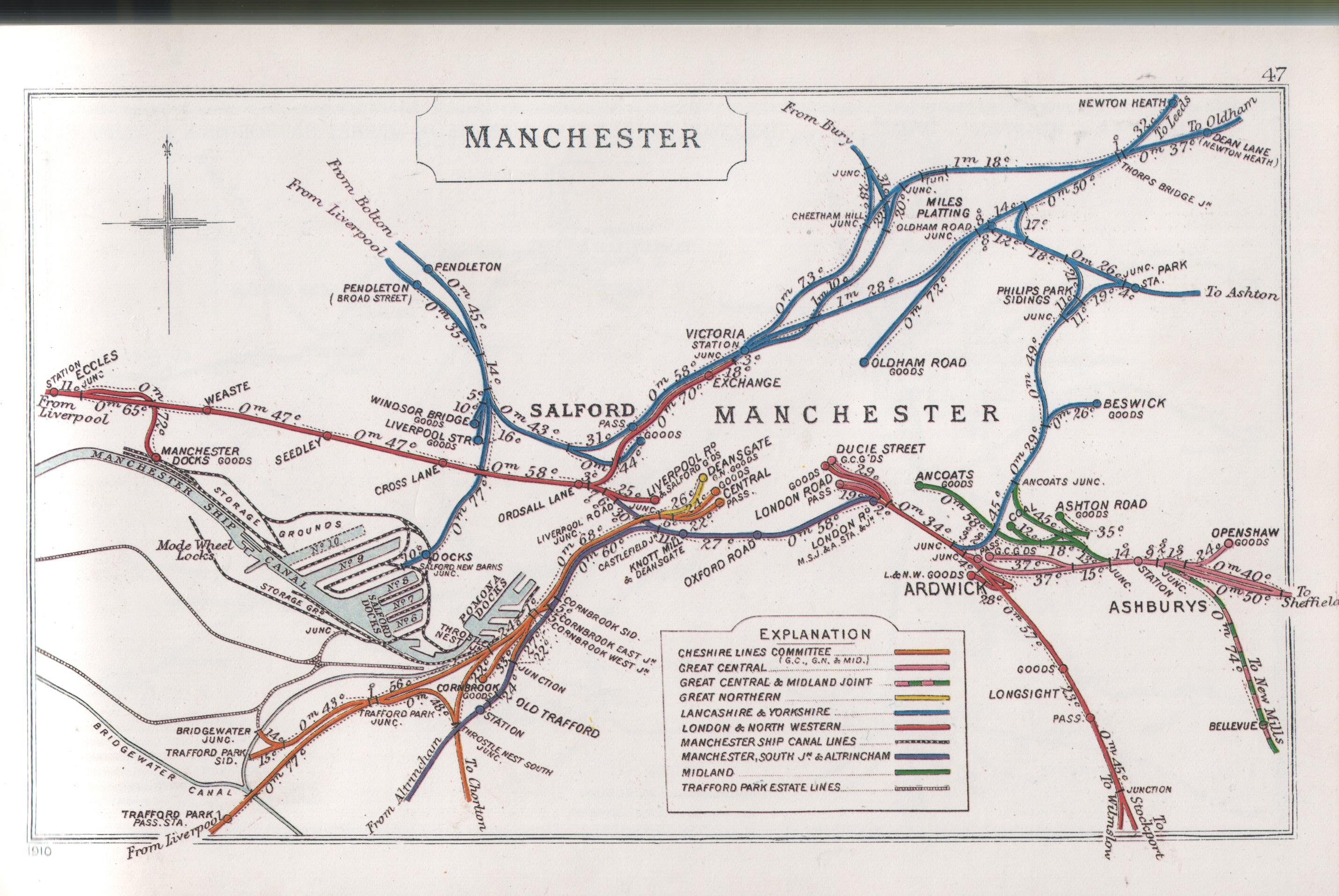 Railway Junctions in Manchester pre grouping